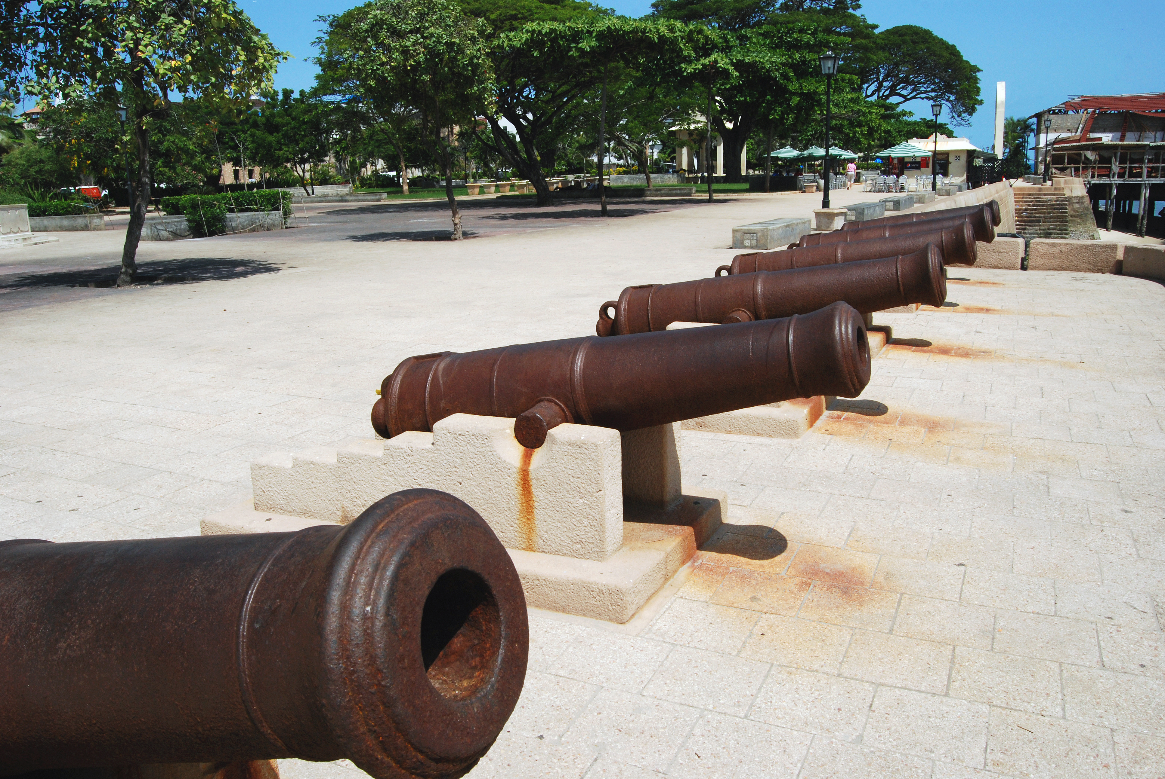 On a walk around Stone Town, Zanzibar City, Zanzibar — in Forodhani Gardens park. Forodhani Gardens' ship cannons scattered about the site were restored for the 2009 rehabilitation and repositioned as a six-gun shore battery.